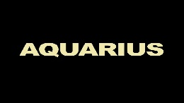 Intertitle from Aquarius (U.S. TV series)